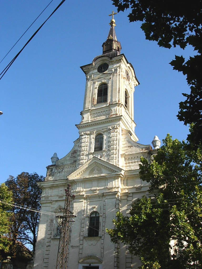 The St. Ana Catholic Church in Bela Crkva.